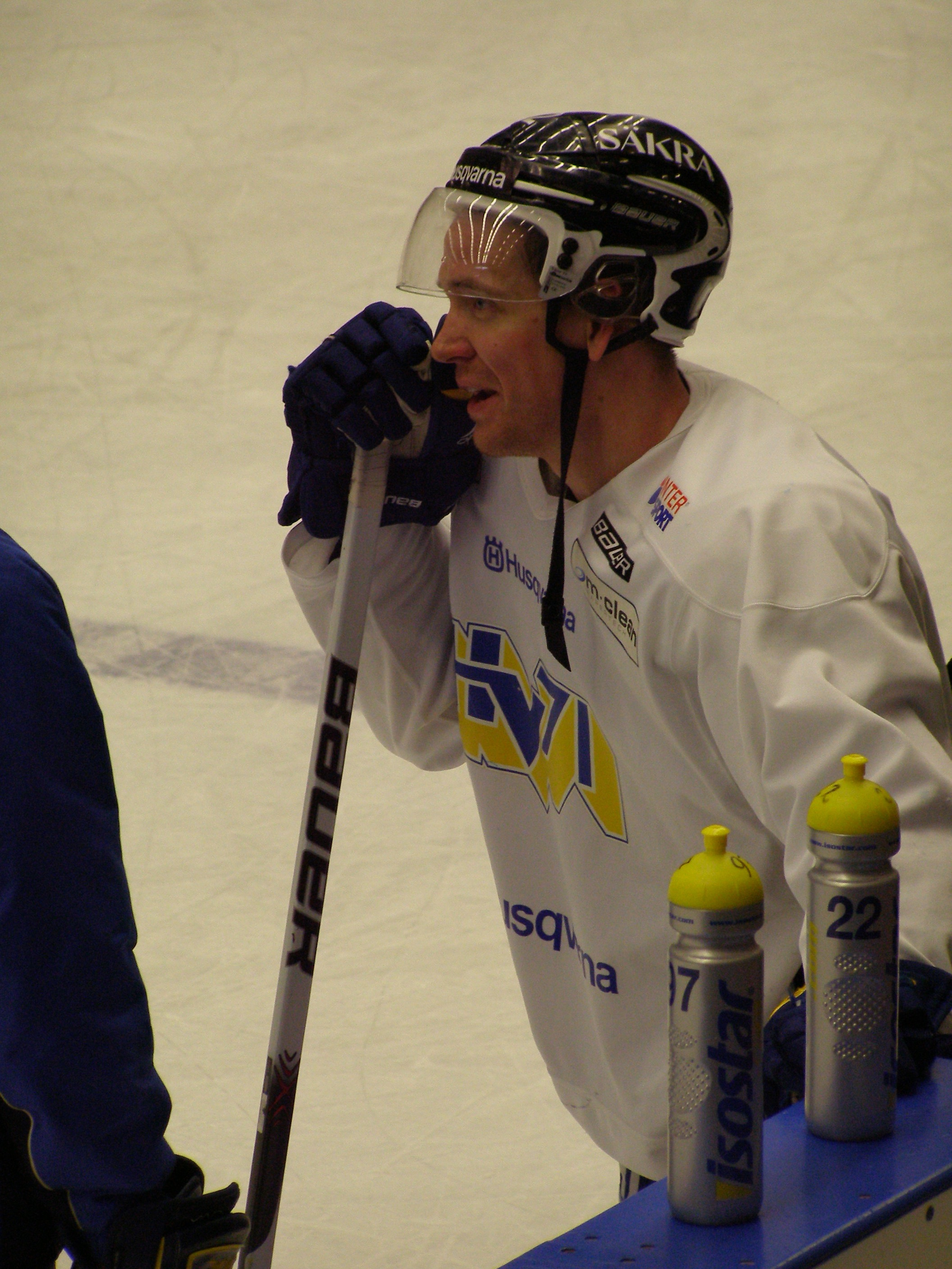 Teemu Laine during practise.